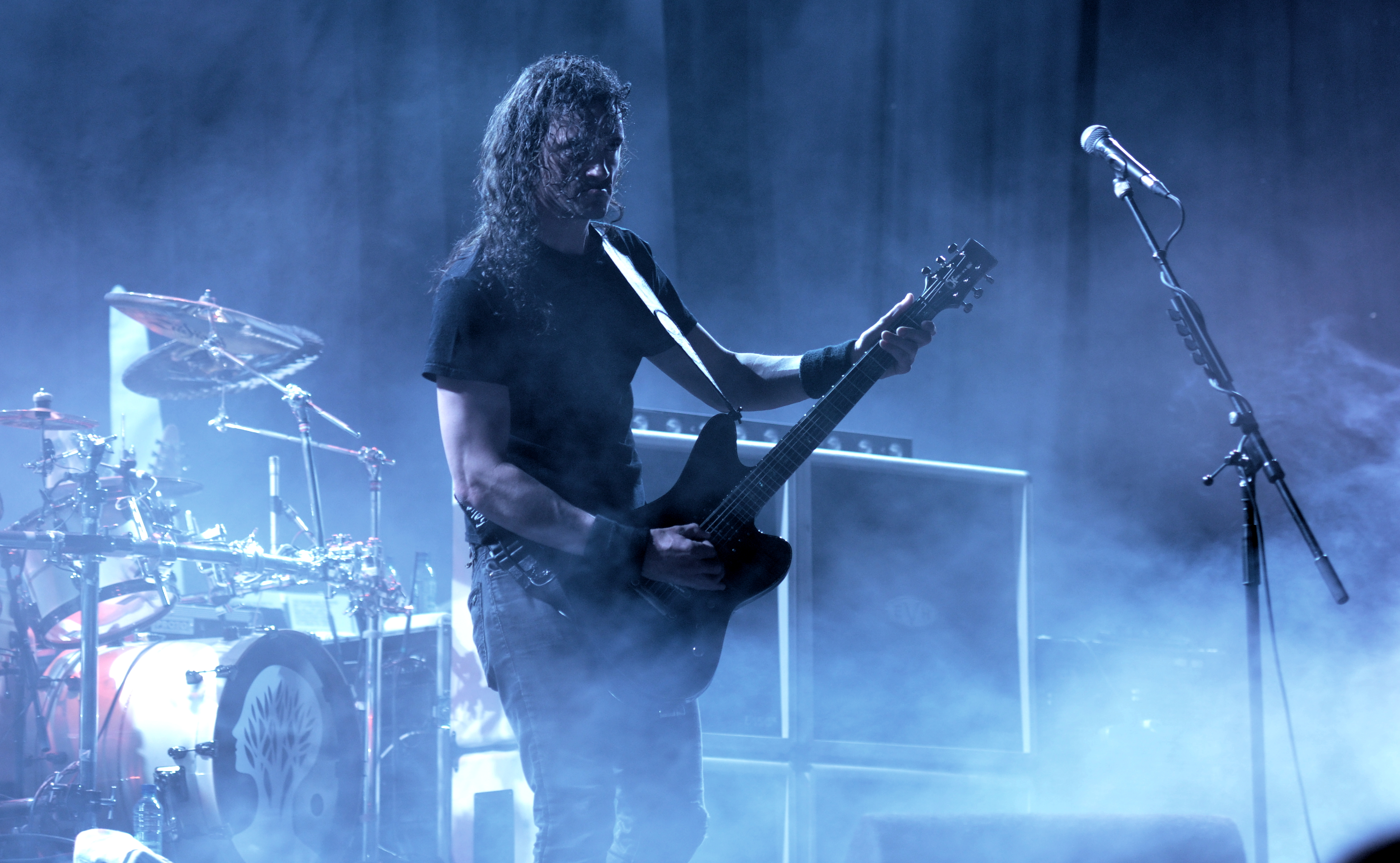 Gojira at Paspop 2013, Schijndel, NL